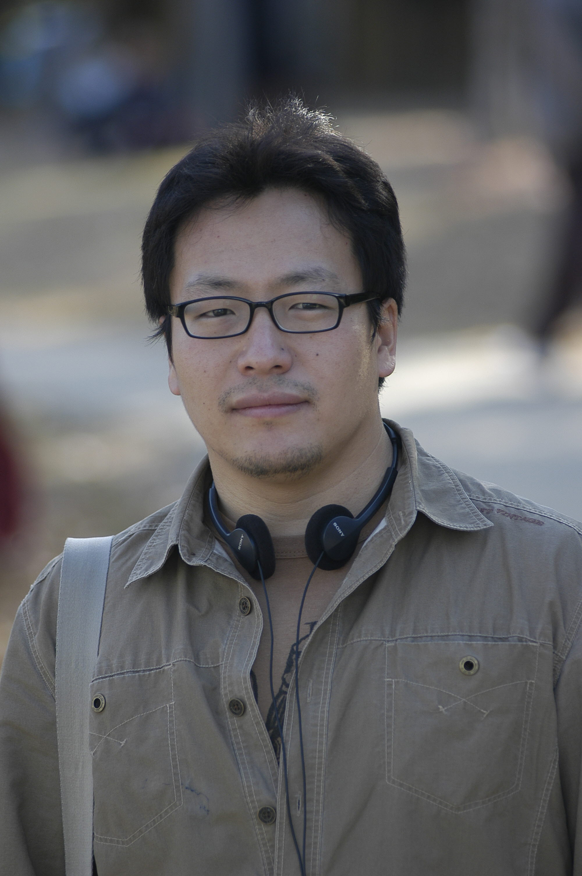 Director Jang, Woo-seok